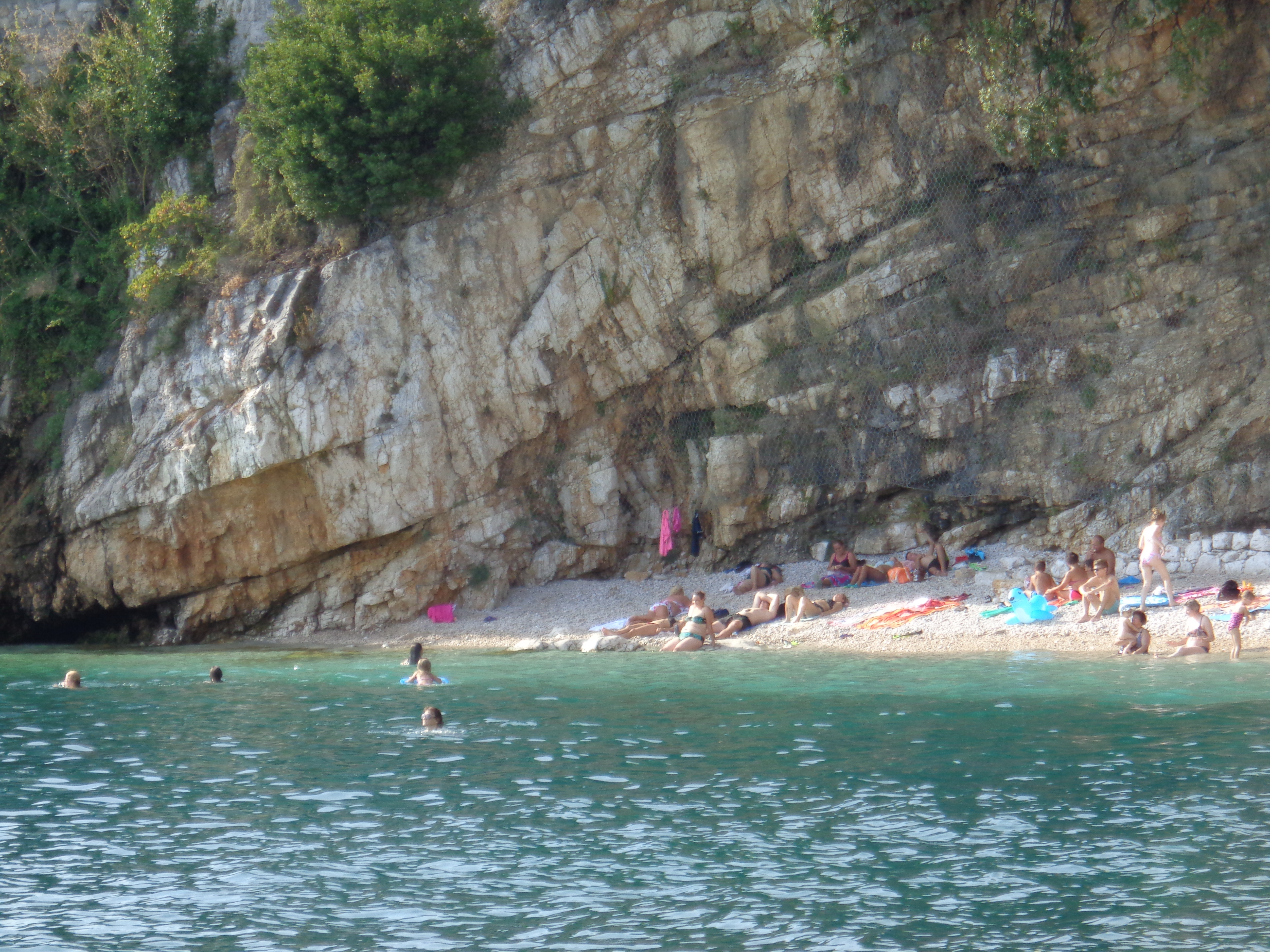 Rijeka, Primorje-Gorski Kotar County, Croatia - Part of the Glavanovo hidden beach at Pećine district